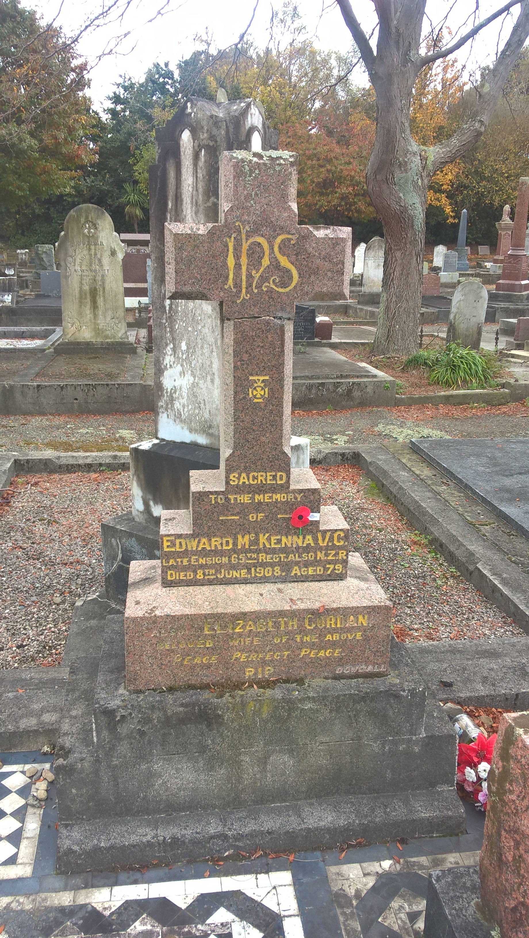 Photo taken in May 2016 of the headstone of Edward McKenna, which is located in Palmerston North, New Zealand.